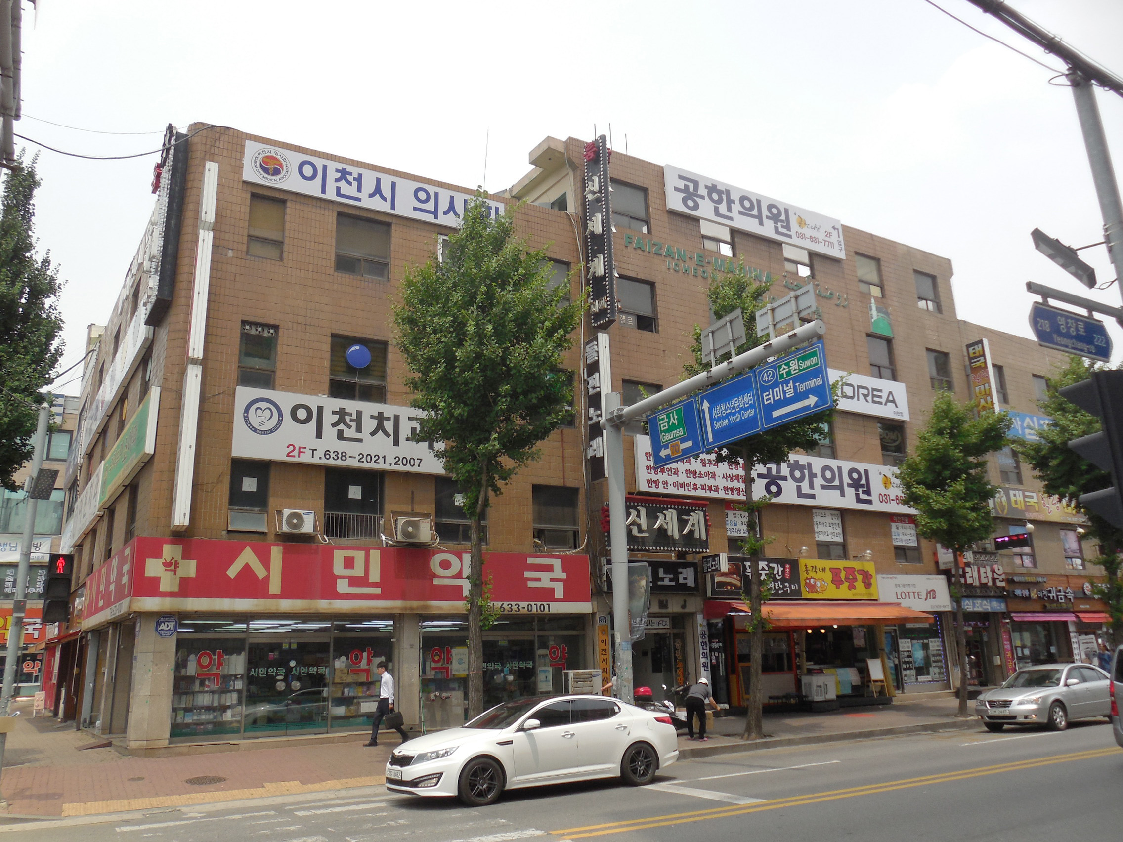 Korea National Railroad Suryeo Line Icheon Station (demolished).